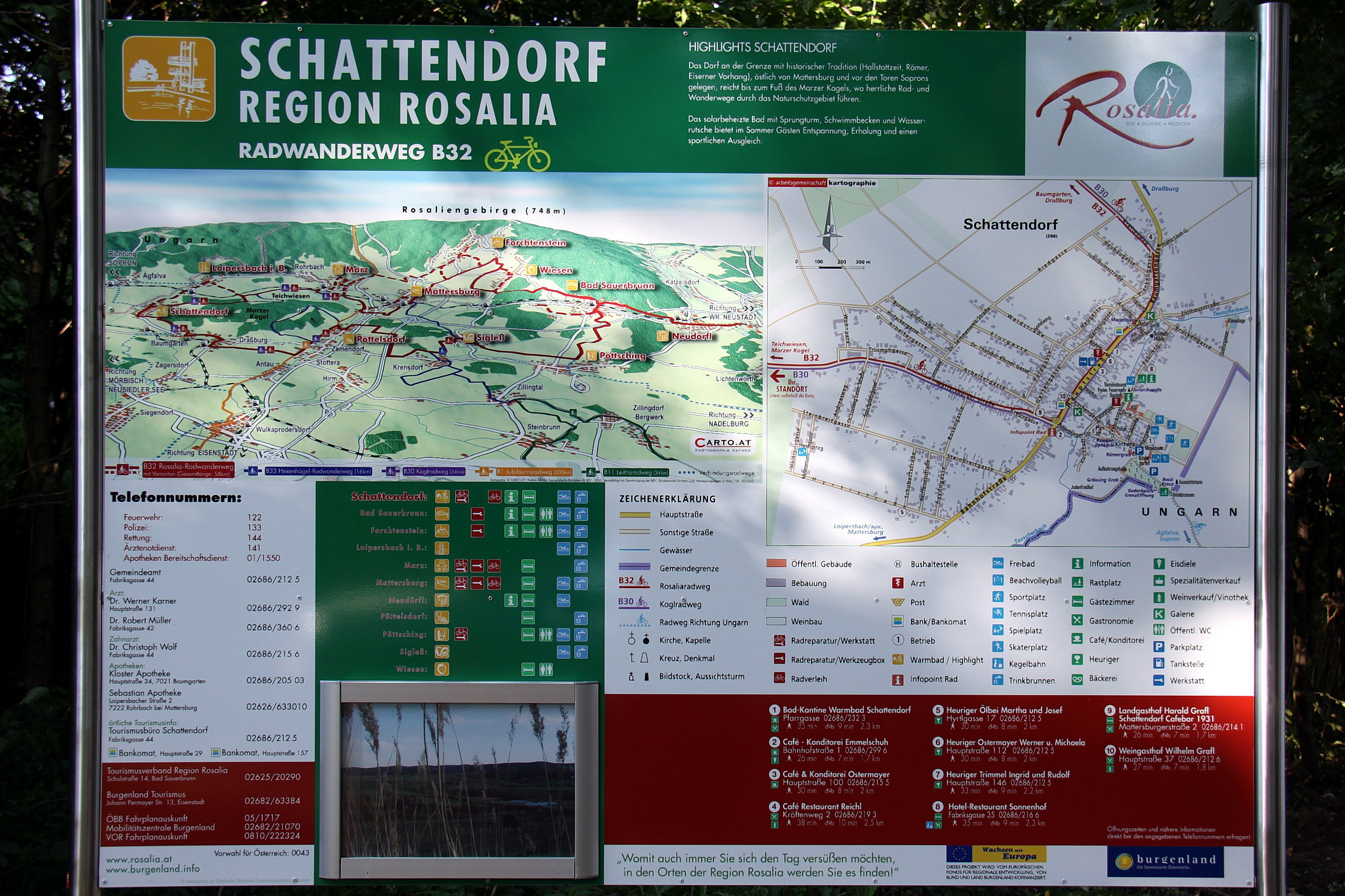 Map of Schattendorf Object location47° 42′ 48.09″ N, 16° 29′ 12.2″ E